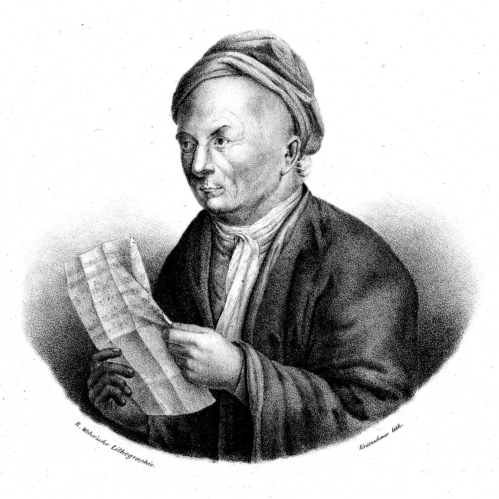 German organist and composer Gottfried August Homilius (1714-1785).